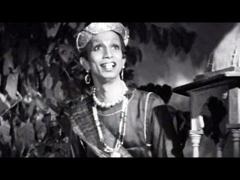 Kasturi Siva Rao, first generation star comedian, singer, producer and director. Snapshot from 1946 film Mugguru Maratilu.